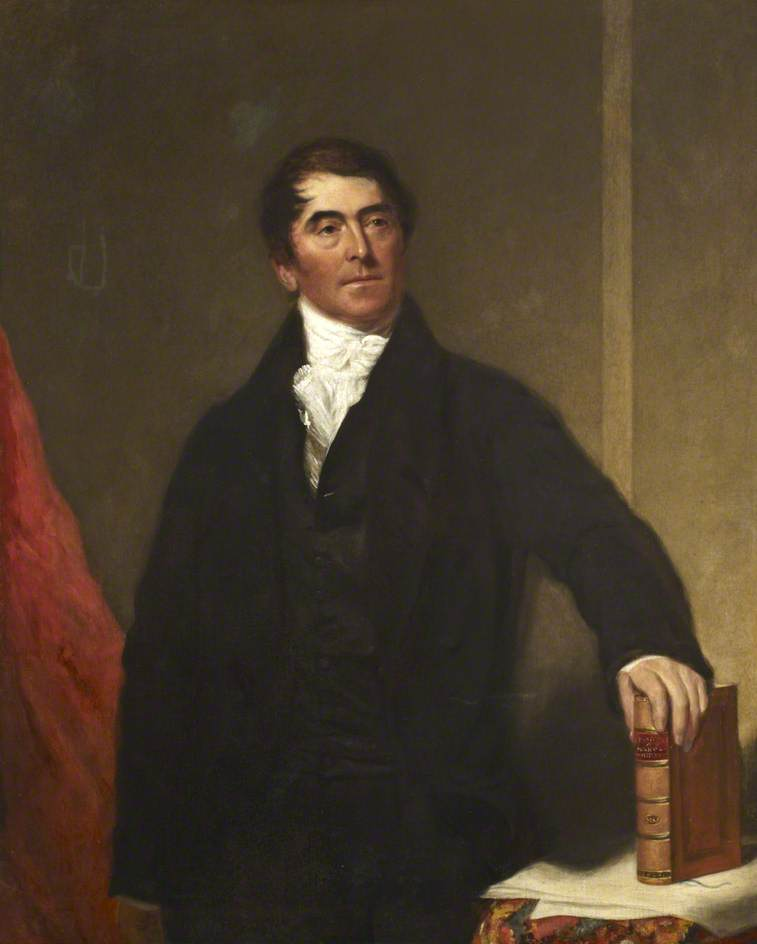 George Birkbeck (1776–1841) by Samuel Lane Birkbeck, University of London Date painted: c.1830